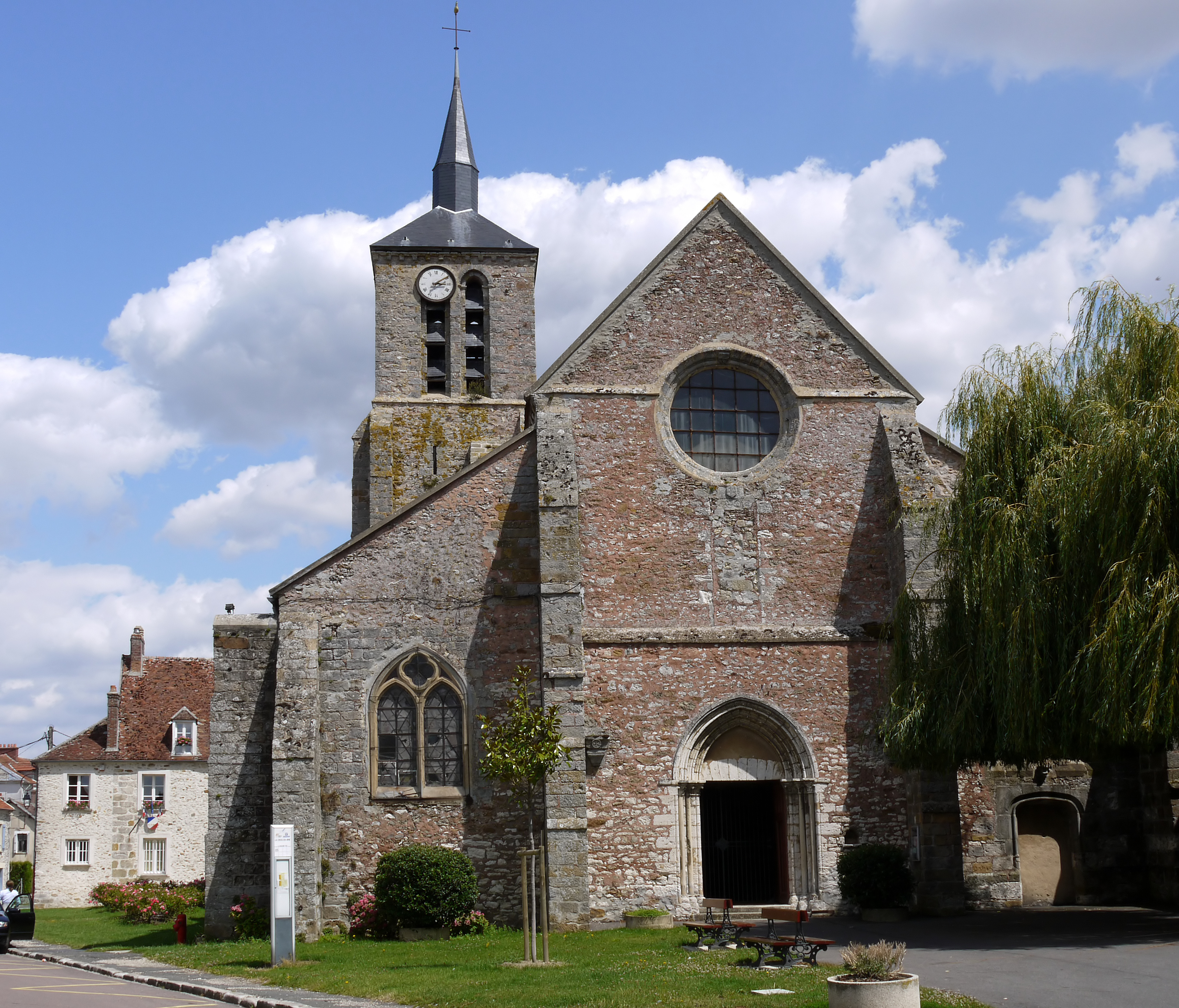 Church Saint Loup, Croix-en-Brie, Ile de France, France